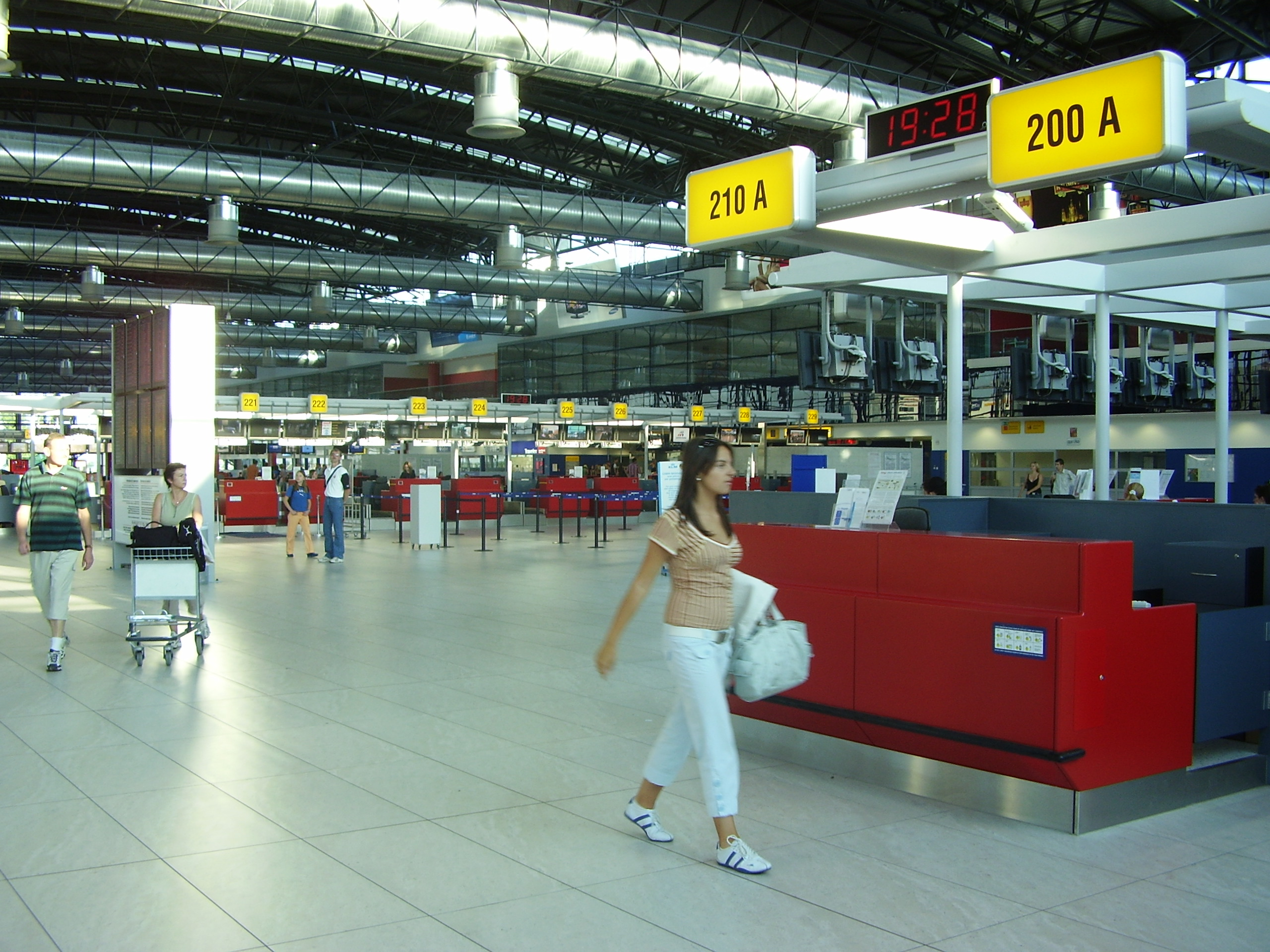 Check in hall of terminal sever 2, Ruzyně Airport, Prague